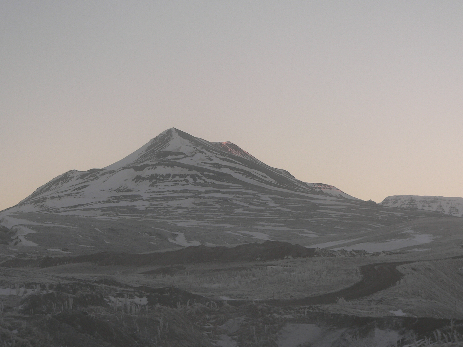 Snow formations in Akureyri, Iceland.